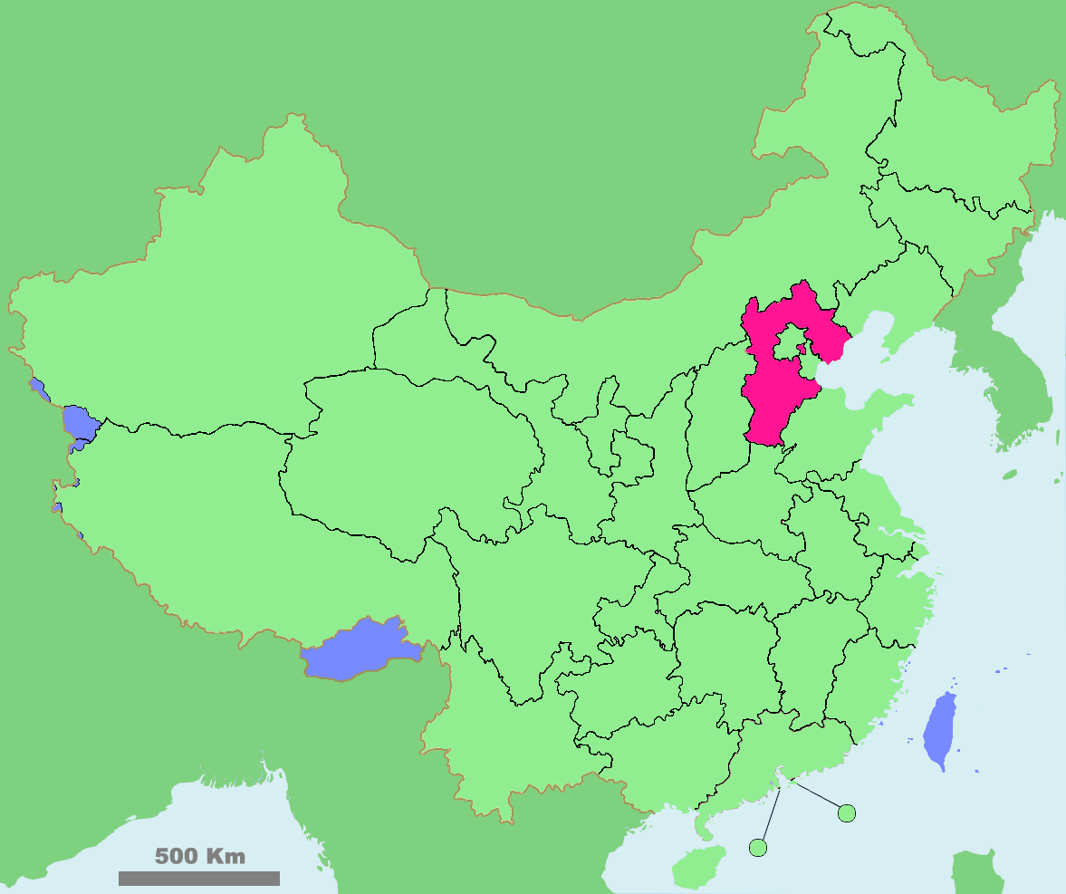 area map of Hebei